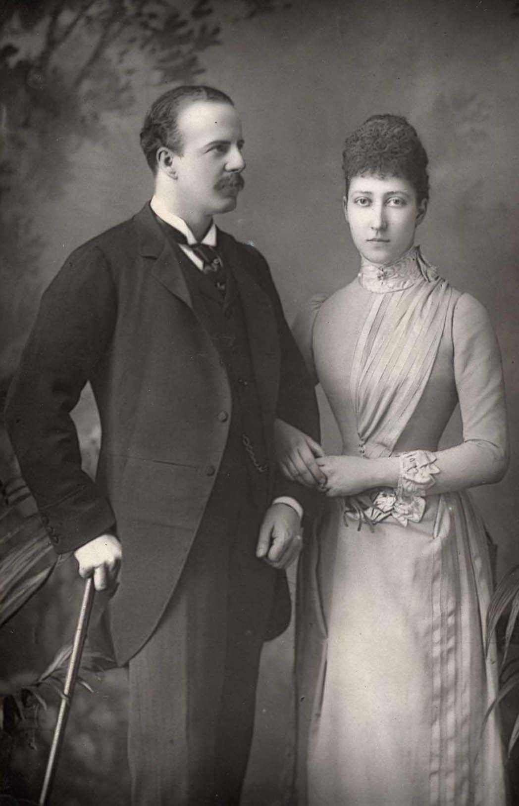 The Duke of Fife (left) and Princess Louise stand together, arm in arm. The Duke holds cane in his right hand. Princess Louise holds gloves in her left hand, and looks to front.